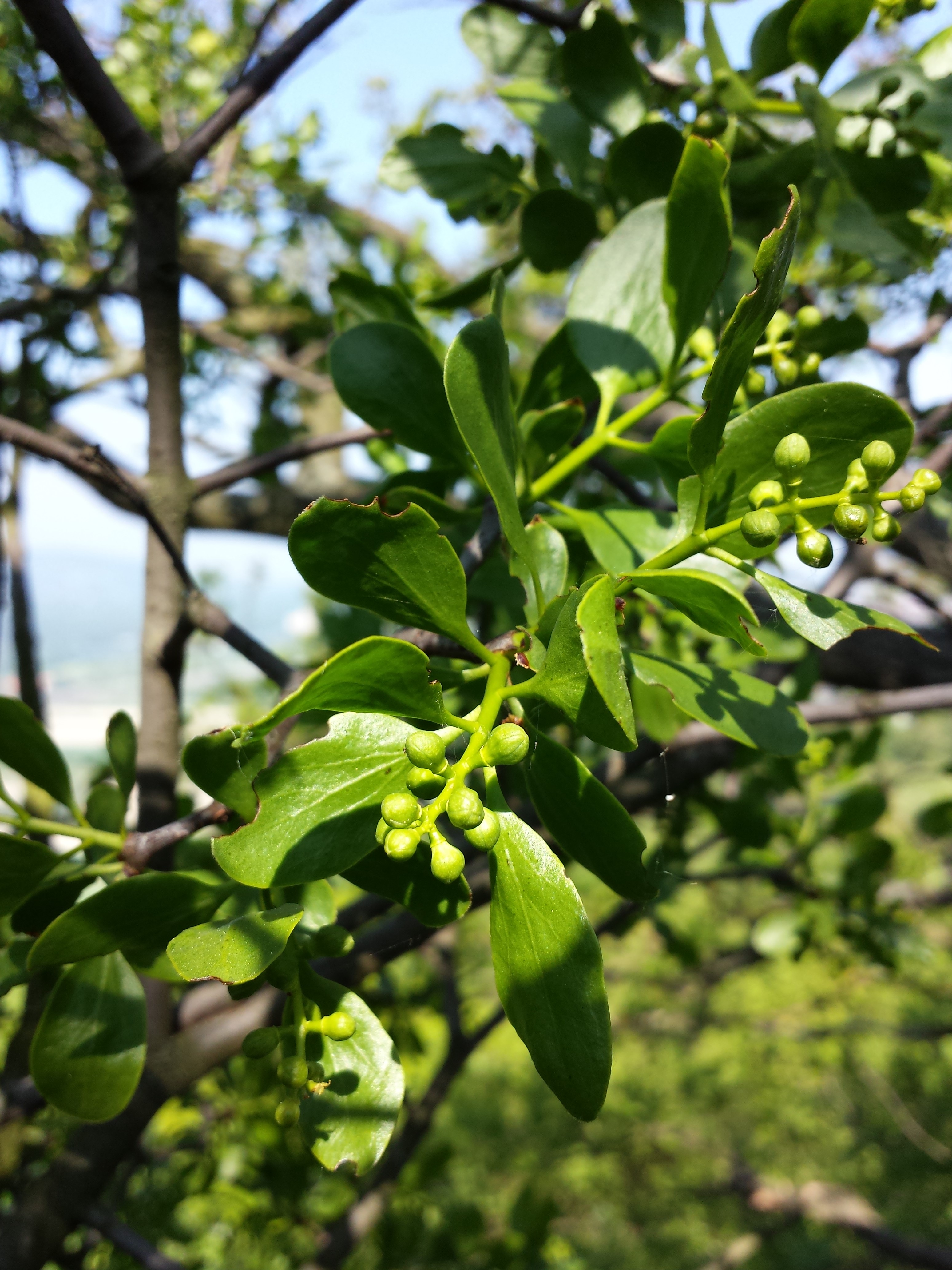 Florescence, flowers yet closed Taxon: Loranthus europaeus auf Flaum-Eiche, Quercus pubescens (sensu Fischer et al. EfÖLS 2008 ISBN 978-3-85474-187-9) Location: west slope of Bisamberg, district Korneuburg, Lower Austria - ca. 300 m a.s.l. Habitat: wood of Quercus pubescens